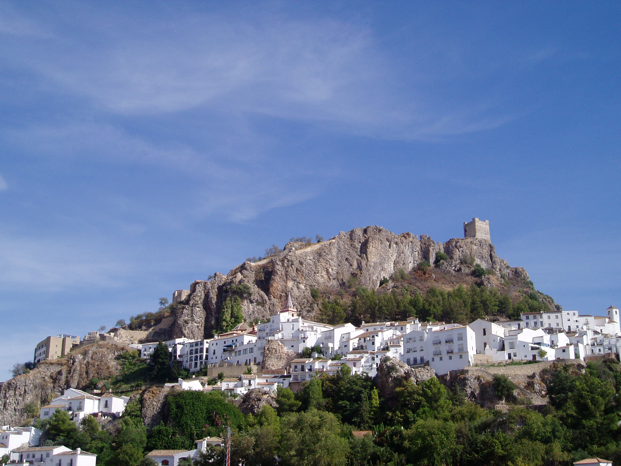 Photograph was taken by myself whilst on holiday in Andalucia in August 2006.